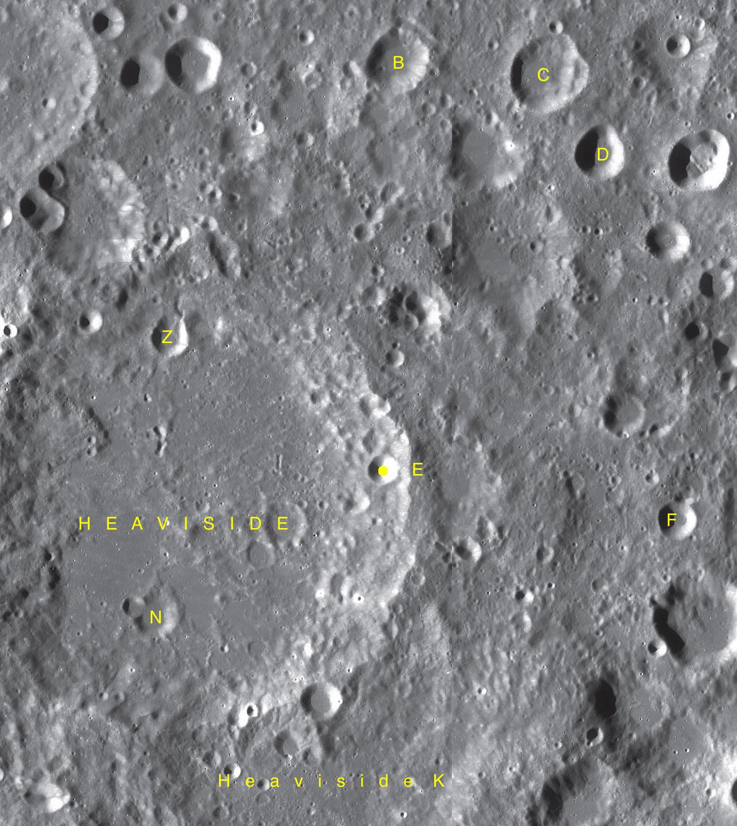 Parts of the charts LAC-85, LAC-86 used for the presentation